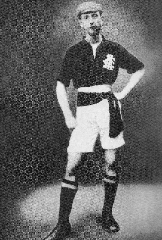 Amilcar Teixeira Pinto, the first captain of America Football Club of Rio de Janeiro, Brazil.